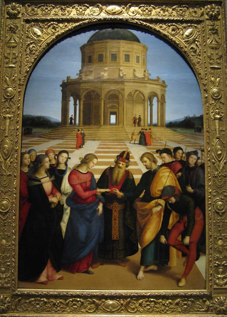 Marriage of the Virgin by Raffaello Sanzio